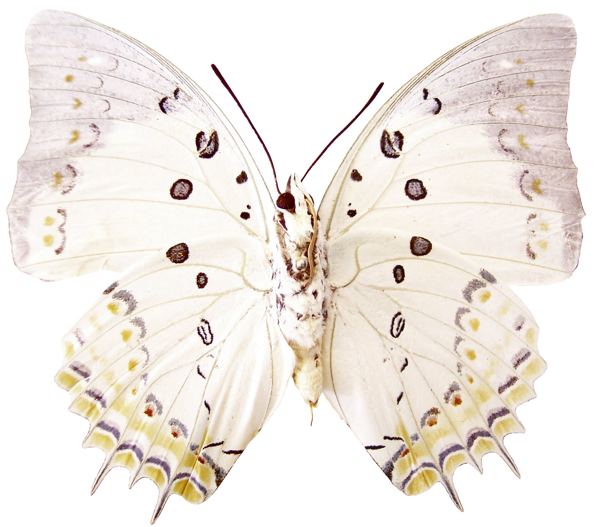 Polyura delphis verso from Malaysia